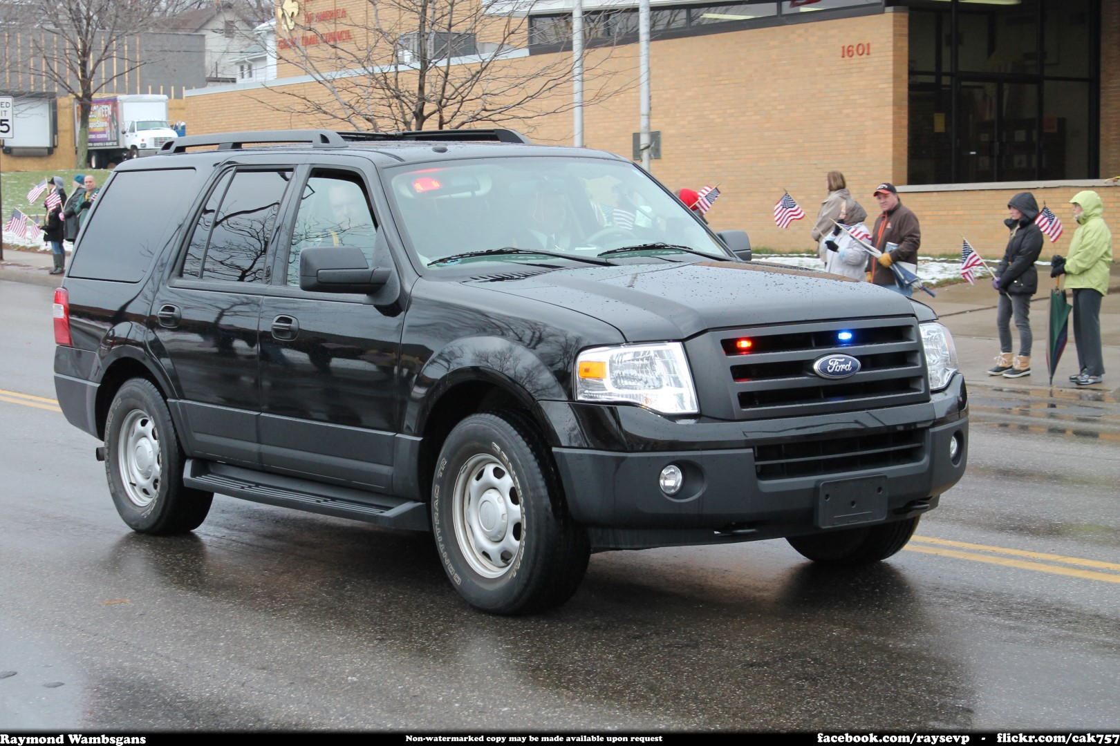 APD Ford Expedition